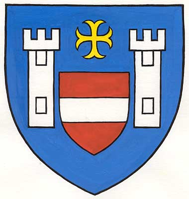 Coat of arms of Laa an der Thaya, Lower Austria